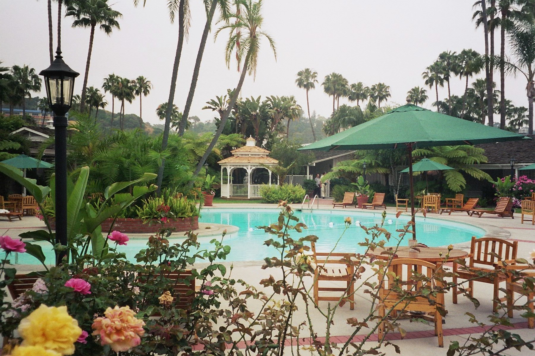 Swimming pool at the Town and Country resort in San Diego